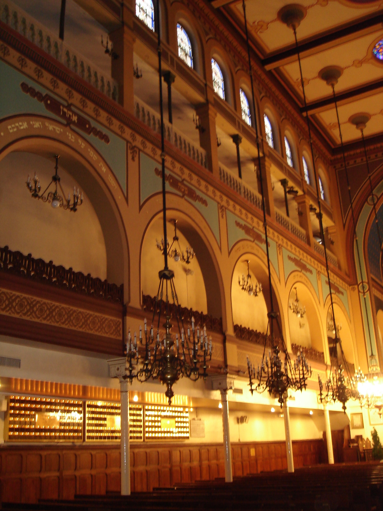 Synagogue de Nazareth, rue Notre Dame de Nazareth in Paris. Internal view